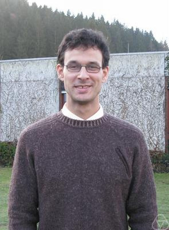 Semyon Alesker, Oberwolfach 2010